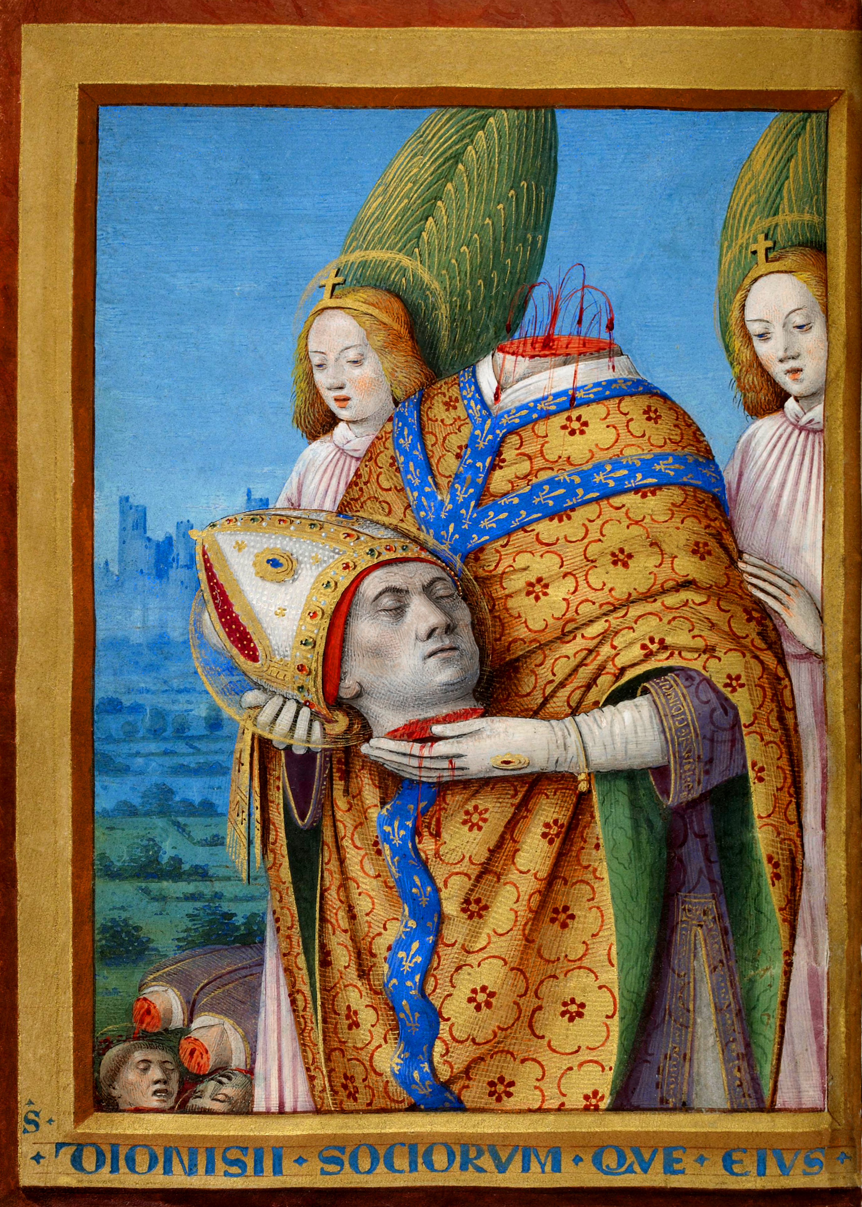 Illuminated manuscript of the Horae ad usum Parisiensem (Book of hours for Parisians), or "Book of Hours of Charles VIII" King of France (1468 - 1498). The folio shows Saint Denis, first bishop and patron of Paris, walking with his head in the hands, after his execution.